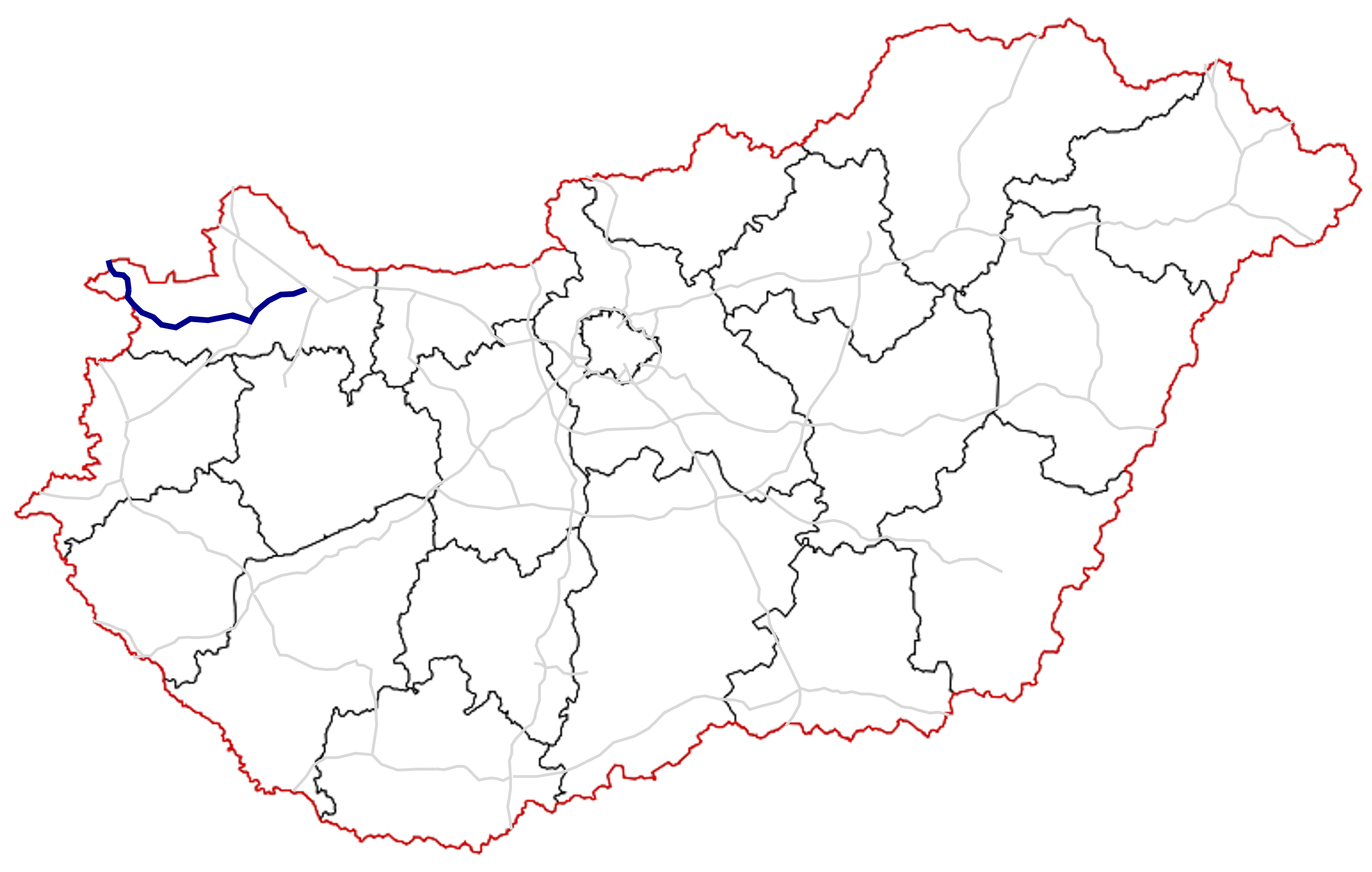 Traject the M85 Motorway, Hungary (Blue: in use, Light blue: under construction, Green: planned)